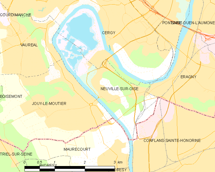 Map of French municipality Neuville-sur-Oise